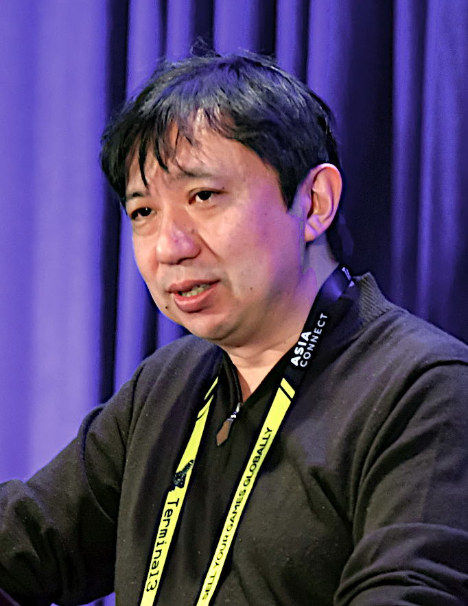 Yukio Futatsugi, COO and Game Director at Grounding, during his session “Classic Game Postmortem: 'Panzer Dragoon', 'Panzer Dragoon Zwei', and 'Panzer Dragoon Saga'” at the Game Developers Conference 2019. Аҧсшәа: Yukio Futatsugi, COO et Game Director à Grounding, lors de sa présentation “Classic Game Postmortem: 'Panzer Dragoon', 'Panzer Dragoon Zwei', and 'Panzer Dragoon Saga'” à la Game Developers Conference 2019.